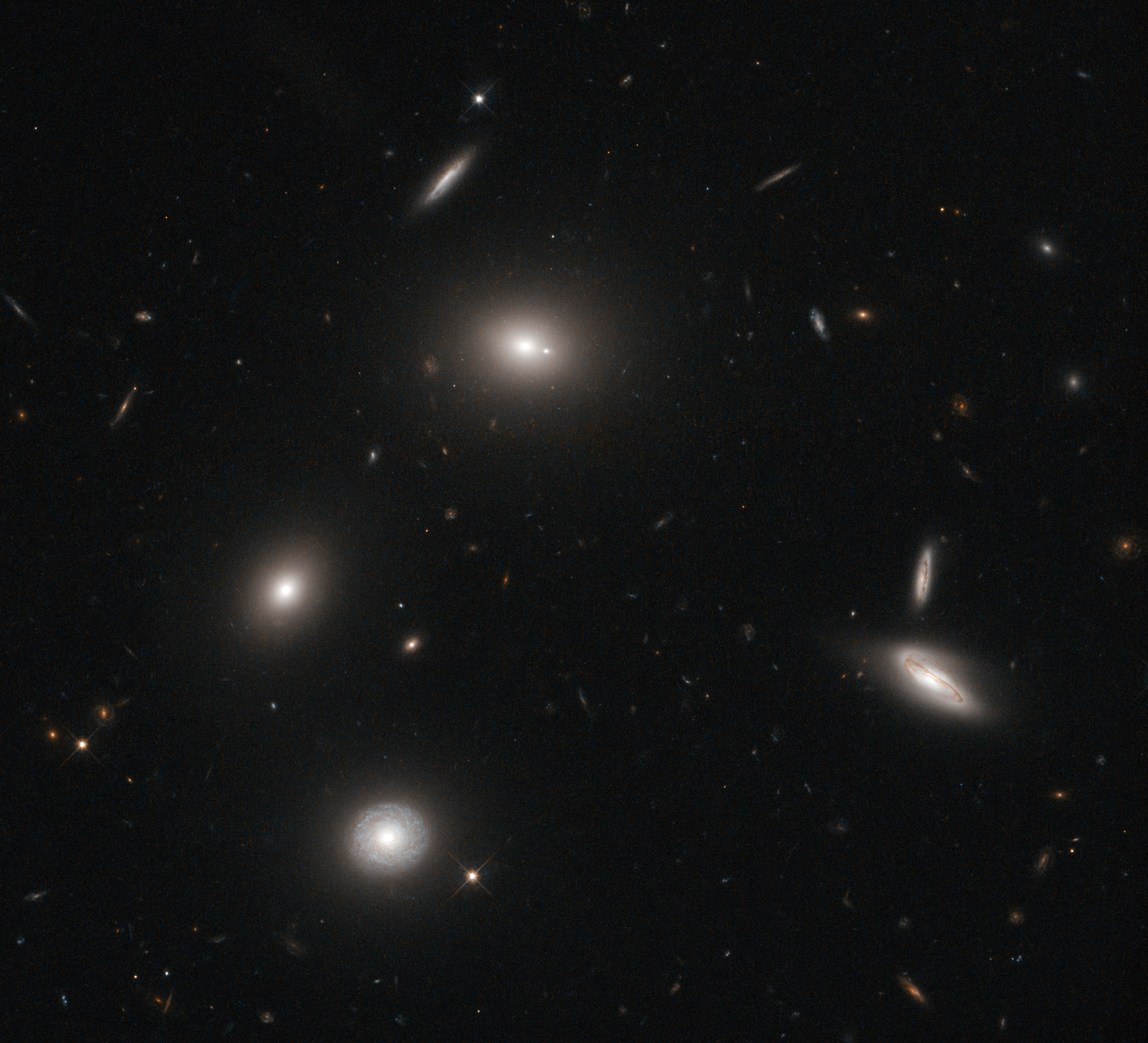 Luminous galaxies glow like fireflies on a dark night in this image snapped by the NASA/ESA Hubble Space Telescope. The central galaxy in this image is a gigantic elliptical galaxy designated 4C 73.08. A prominent spiral galaxy seen from "above" shines in the lower part of the image, while examples of galaxies viewed edge-on also populate the cosmic landscape. In the optical and near-infrared light captured to make this image, 4C 73.08 does not appear all that beastly. But when viewed in longer wavelengths the galaxy takes on a very different appearance. Dust-piercing radio waves reveal plumes emanating from the core, where a supermassive black hole spews out twin jets of material. 4C 73.08 is classified as a radio galaxy as a result of this characteristic activity in the radio part of the electromagnetic spectrum. Astronomers must study objects such as 4C 73.08 in multiple wavelengths in order to learn their true natures, just as seeing a firefly’s glow would tell a scientist only so much about the insect. Observing 4C 73.08 in visible light with Hubble illuminates galactic structure as well as the ages of constituent stars, and therefore the age of the galaxy itself. 4C 73.08 is decidedly redder than the prominent, bluer spiral galaxy in this image. The elliptical galaxy’s redness comes from the presence of many older, crimson stars, which shows that 4C 73.08 is older than its spiral neighbour. The image was taken using Hubble’s Wide Field Camera 3 through two filters: one which captures green light, and one which captures red and near-infrared light.